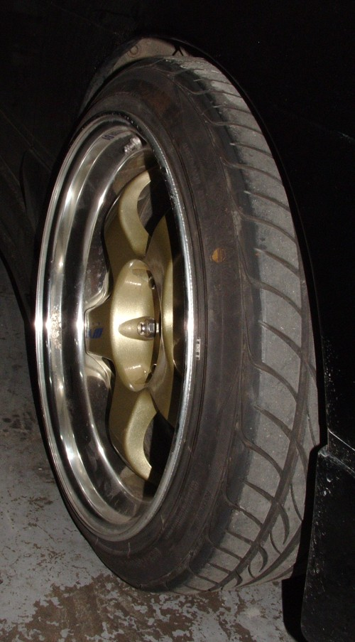 Took photo myself, Friday 14th July 2006, Brooklyn, Melbourne. Photo shows large positive offset wide wheel on S13 Silvia with narrower tyre stretched over it.